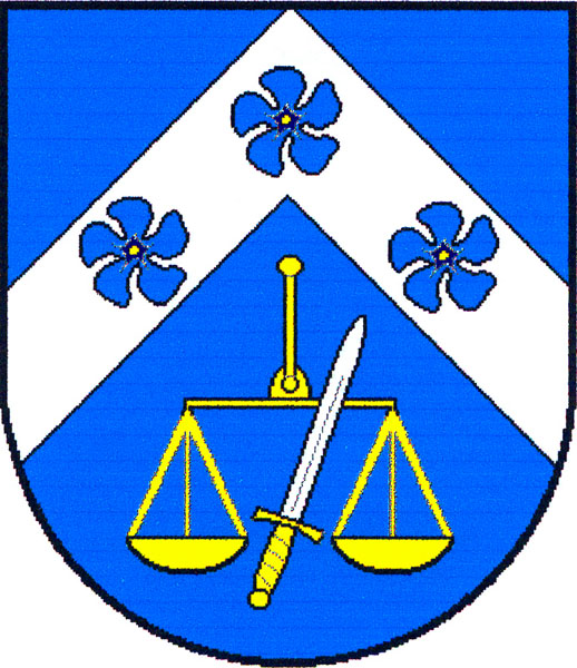 Municipal coat of arms of Podomí village, Vyškov District, Czech Republic.